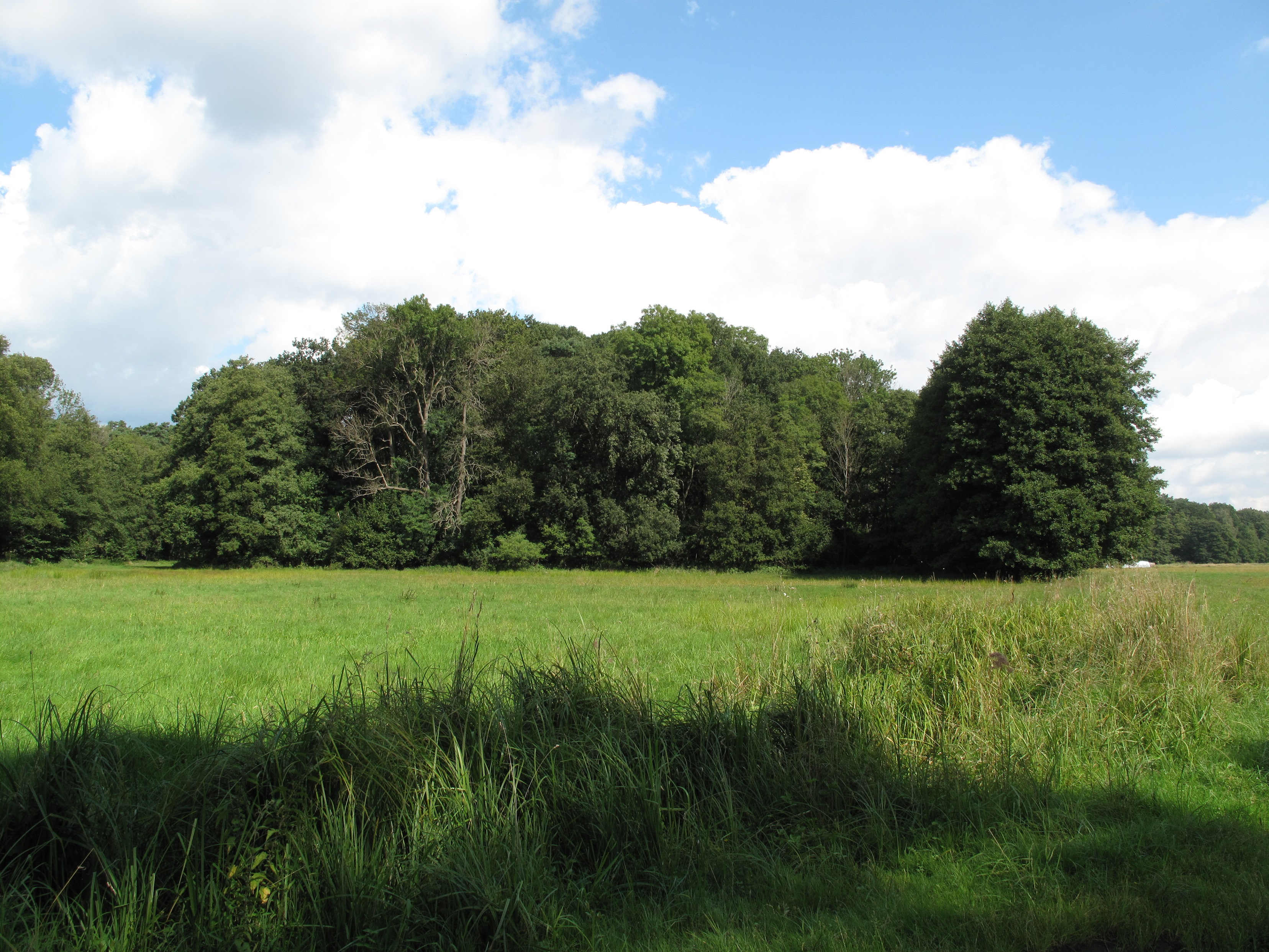 The Räuberberg (german for: robber mountain) is a listed archaeological site/monument (german: Bodendenkmal) in Görsdorf, a village of the municipality Tauche in the District Oder-Spree, Brandenburg, Germany. On the 58,1 meters high hill there was a german castle. Apart from the fortress wall and archaeological finds, dated 12th/13th century, remained no features.